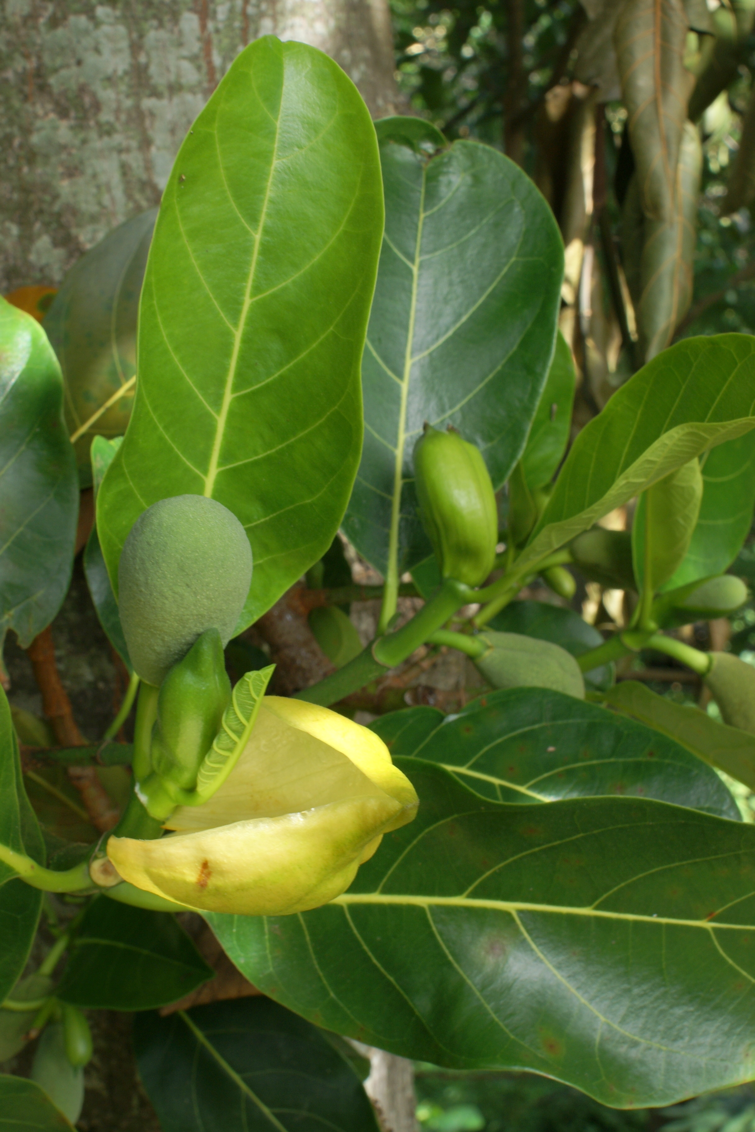 Jackfruit (Artocarpus heterophyllus) flowers, on Réunion island